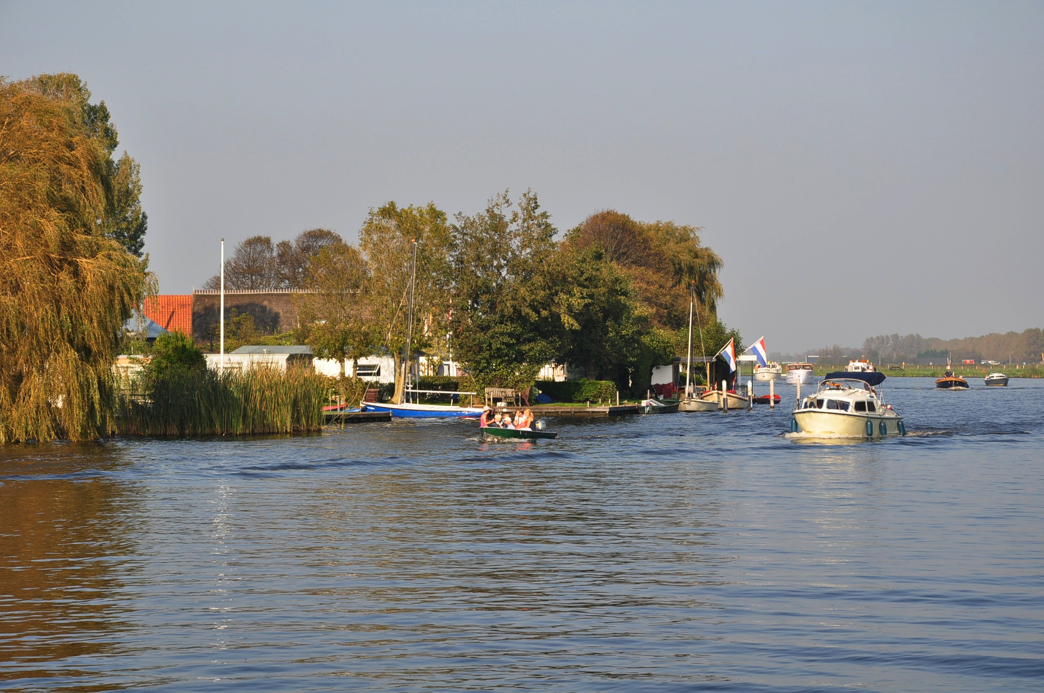 View of the river Ade in the municipality of Kaag en Braassem (province of South Holland, Netherlands). It has a length of only 2 km.